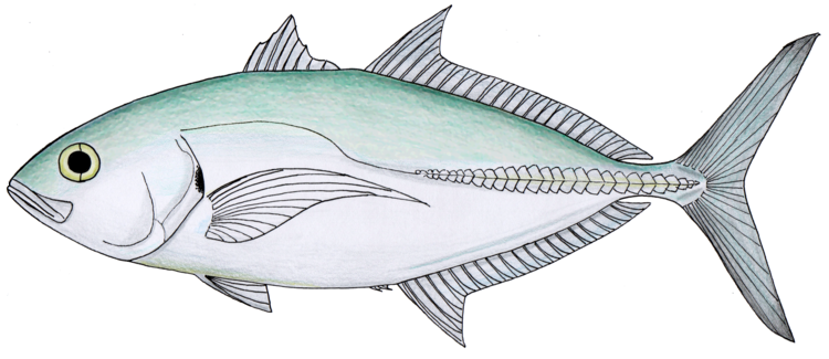 Hand drawn and coloured image of the green jack, Caranx caballus. Based on Fishbase images and Mexfish photos